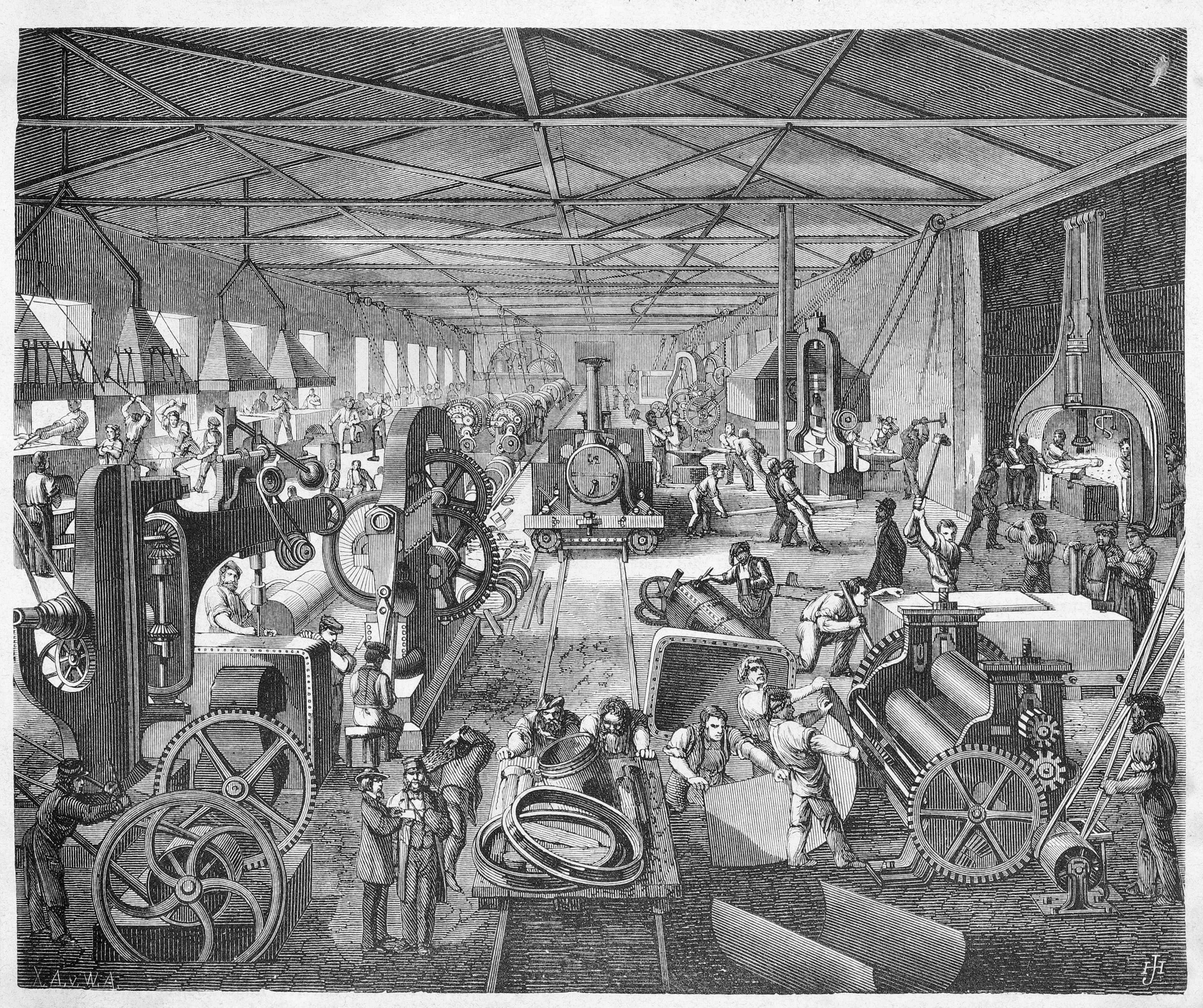 caption: "Die „Centralreperaturwerkstätte“ in Olten."